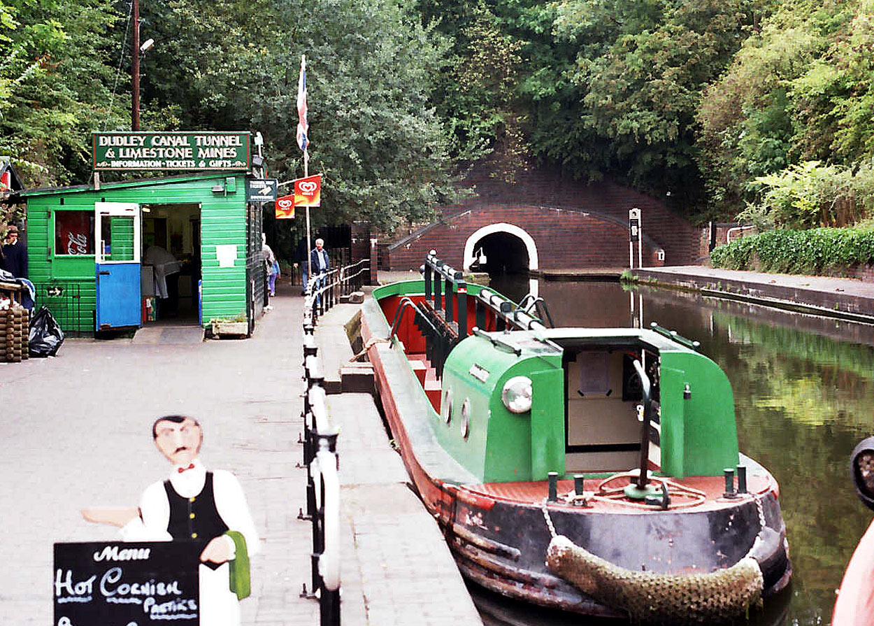 Canal boat at the Black Country Living Museum.